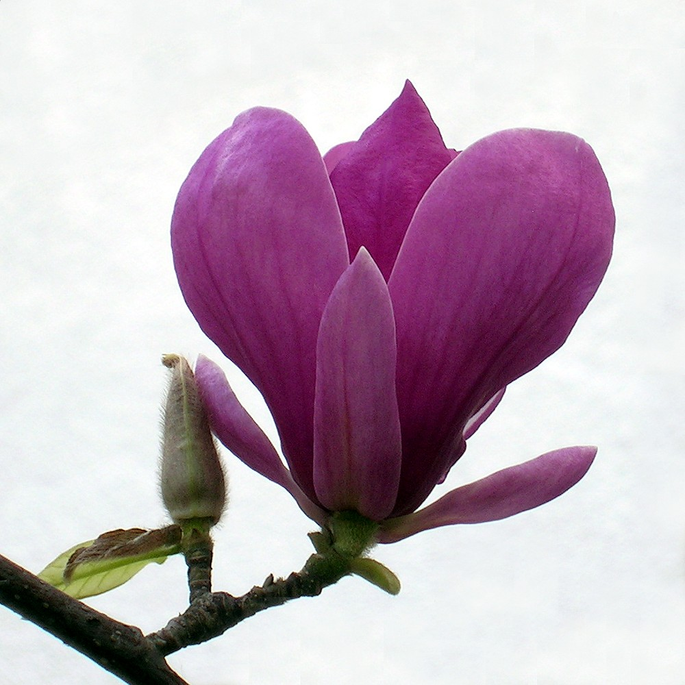 Flower of a Magnolia Tree. This foto was taken by Benutzer:Janekpfeifer on March 16th 2005 in Aveiro, Portugal.